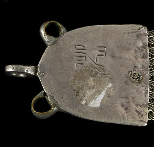 The broad silver headband consists of a flexible, tightly interlaced band, which has shield-shaped end-pieces and seven movable retainers with rhombic elements. End-pieces and retainers are executed in embossing and filigree technique; in addition they are gilded and the background is filled with green enamel. The floral decor on the end pieces combines different shaped leaves and stalks; and the rhombic elements display four three-foil attachments arranged around a central five-ball granulation cluster. The motifs of the end-pieces and retainers are framed with bead-molding borders. Such silver headbands formed the basis of a woman's headpiece. The large loops at the end-pieces were used to fix the band at the headscarf, and the smaller loops on the rhombic elements to fasten smaller (often ball-shaped) dangles. Headpieces such as this were common in northern regions of Yemen. The back of the end pieces has an Arabic stamp with the name of the ruling imam and the date: al-Mahdi 1171. Al-Mahdi al-"Abbas was the imam of Yemen from AH 1161 to 1189 (AD 1748-1775), and belonged to then Qasimid family. In 1762/63 he met the German explorer Carsten Niebuhr, who reported on this encounter. An engraving in Hebrew on the back of the other end-piece names the silversmith: Sa'id "Iraqi. The Hebrew script clearly states that the silversmith was Jewish, and the name indicates that he or his family originally came from Iraq.